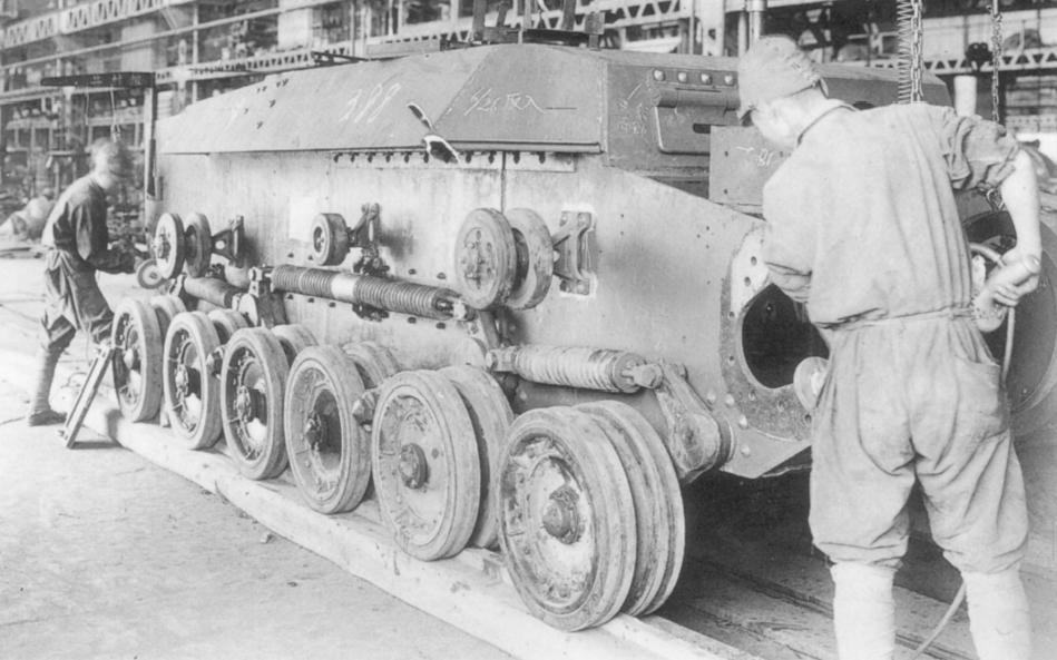 Assembly of the Type 3 Chi-Nu